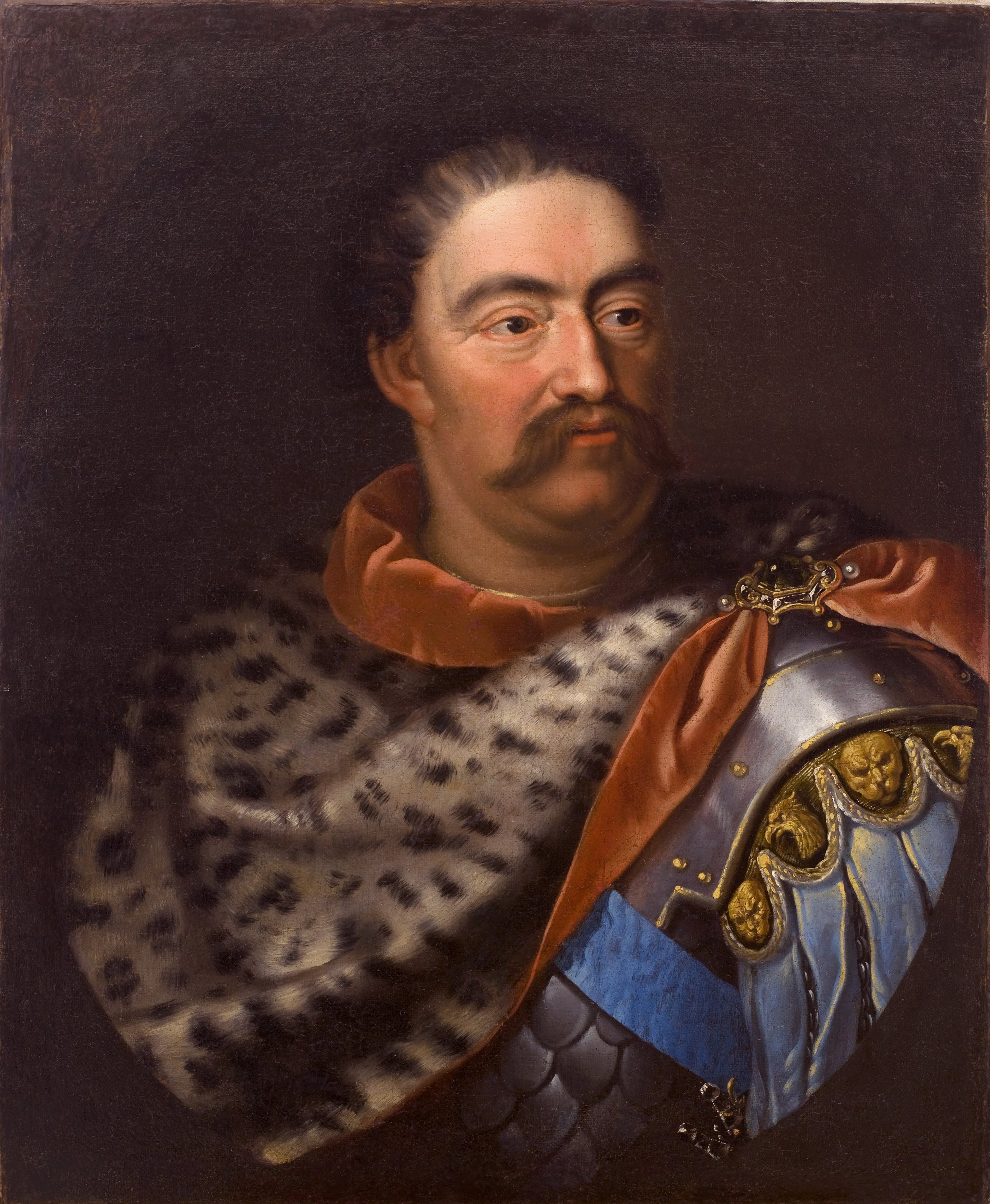 Portrait of John III Sobieski (1629-1696)